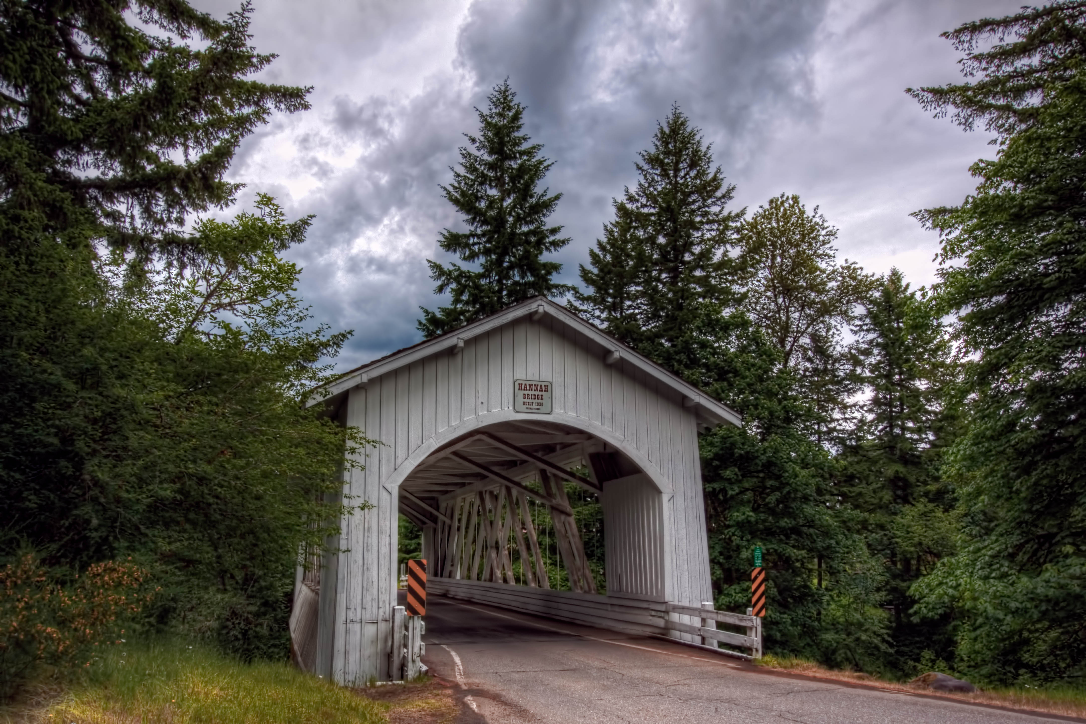 The Hannah Bridge is the youngest of the five covered spans on Thomas Creek in Linn County. The 105-foot housed Howe truss is exposed through the large side openings on the bridge. Very attractive in appearance, the characteristic Linn County covered bridge design includes segmental portal arches, exposed beams at the gable ends, and white board-and-batten cladding. Thomas Creek was named for Frederick Thomas, who obtained a donation land claim on the banks of the stream in 1846.